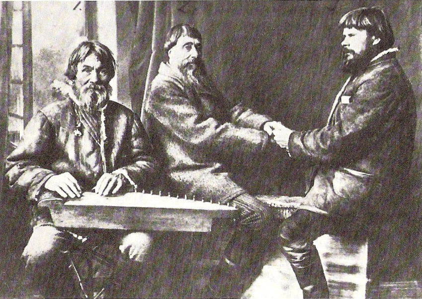 Kalevala-singers from Suistamo in the early 20th century. Iivana Shemeikka plays the Kantele. He belonged to one of the most well-known singer of Kalevala-songs. Iivana Onoila and Konstantin Kuokka hold their hands and sing sitting astride of the bench.